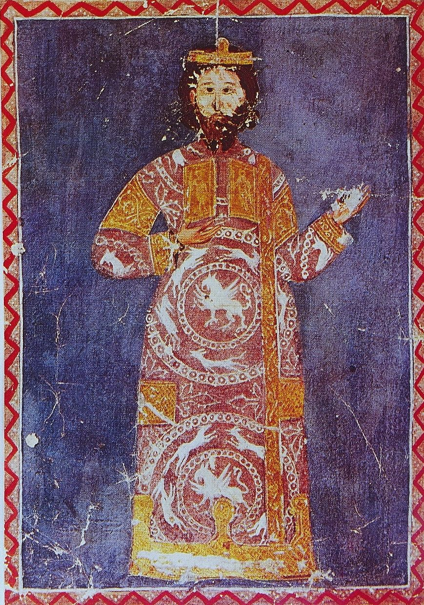 The Byzantine Emperor Alexios V Doukas, nicknamed "Mourtzouphlos", last ruler of the Byzantine Empire before its fall to the Fourth Crusade.